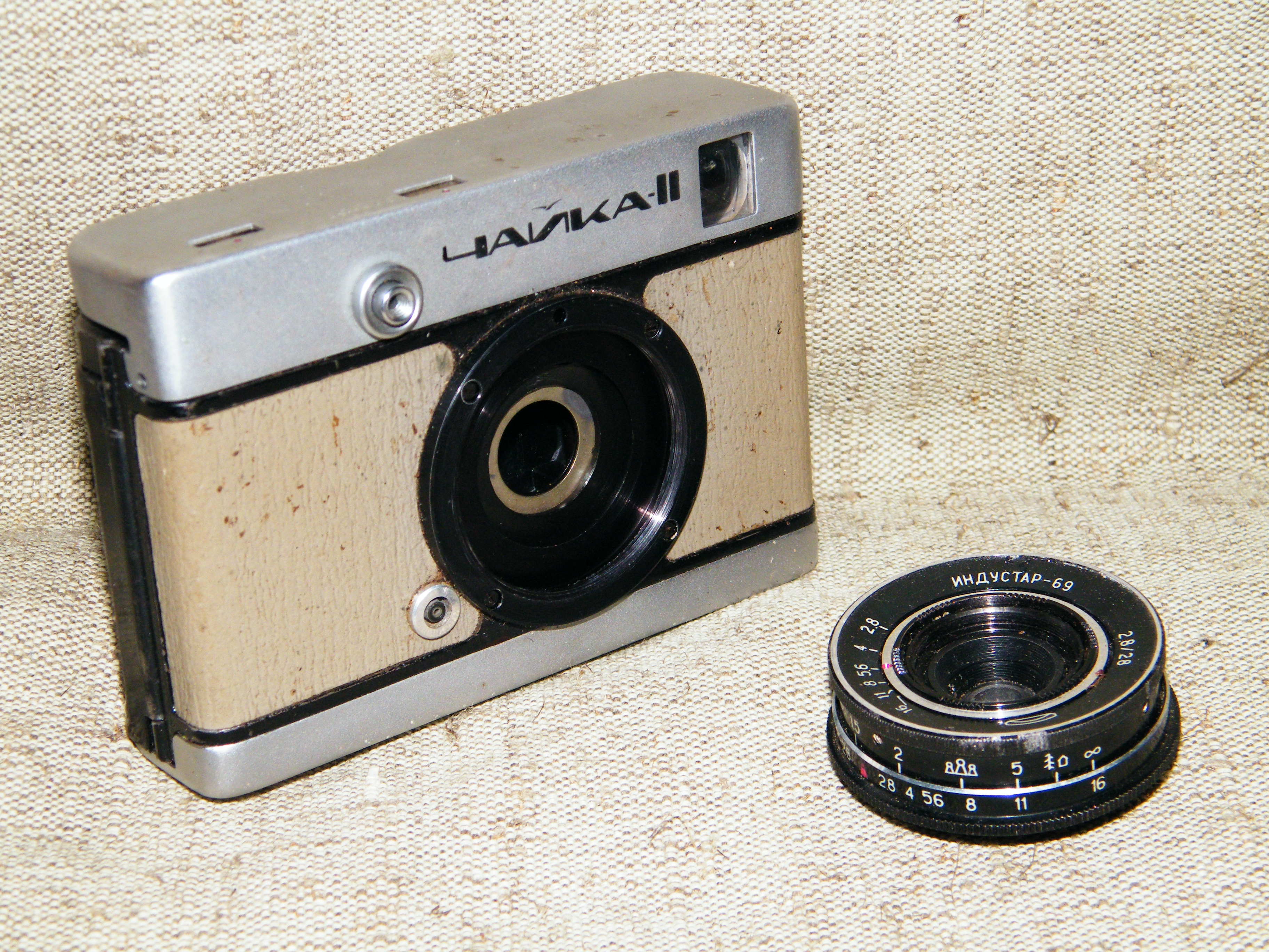 Chaika cameras